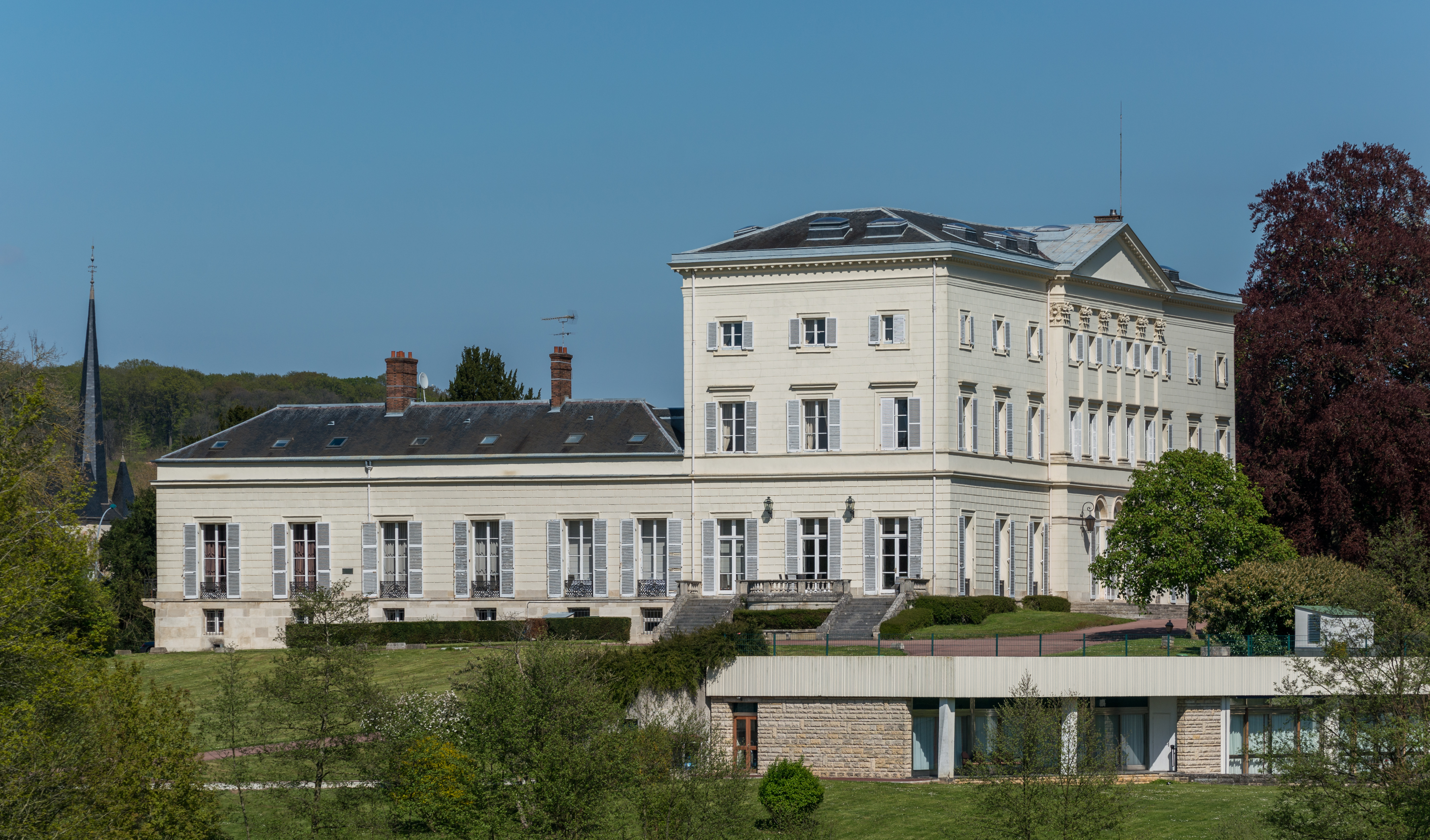 The "Chateau" Building of HEC Paris, which is mainly used for executive education